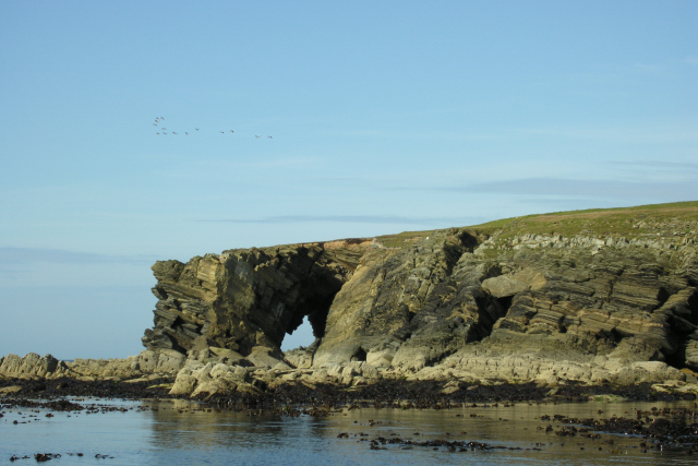 Natural arch through North end of Holm of Faray This natural arch, through the sandstone cliffs of Holm of Faray, is a good example of the many caves and geos found in this area. The Holm is home to many Common seals. Note the flock of Greylag geese winging their way towards Westray. A very low tide was experienced this day due to the high pressure weather system Orkney was fortunate to experience this last week.